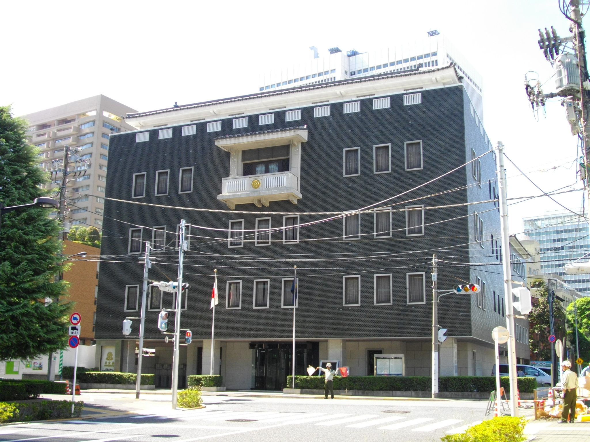 Shinreikyo Headquaters